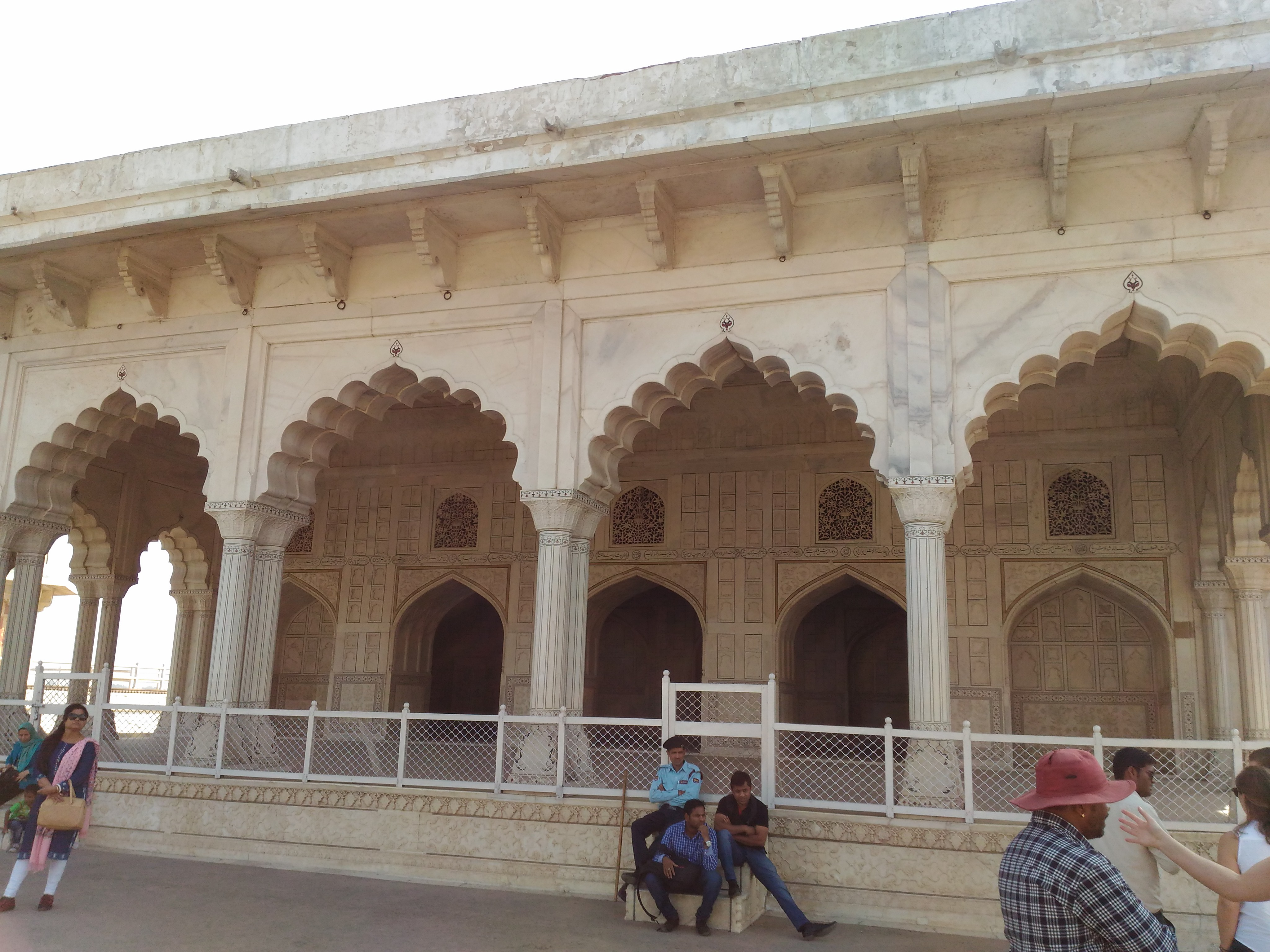 agra fort deevan e khas